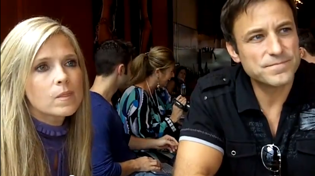 Picture of Missy Reeves & Ty Treadway at the "Day of Days" fan event in 2010.